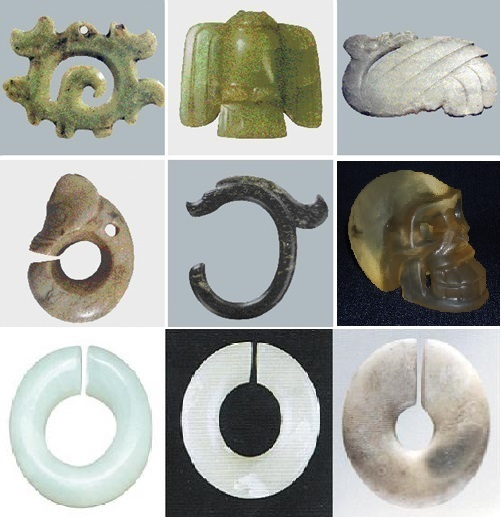 The remains of Hongshan culture (China)